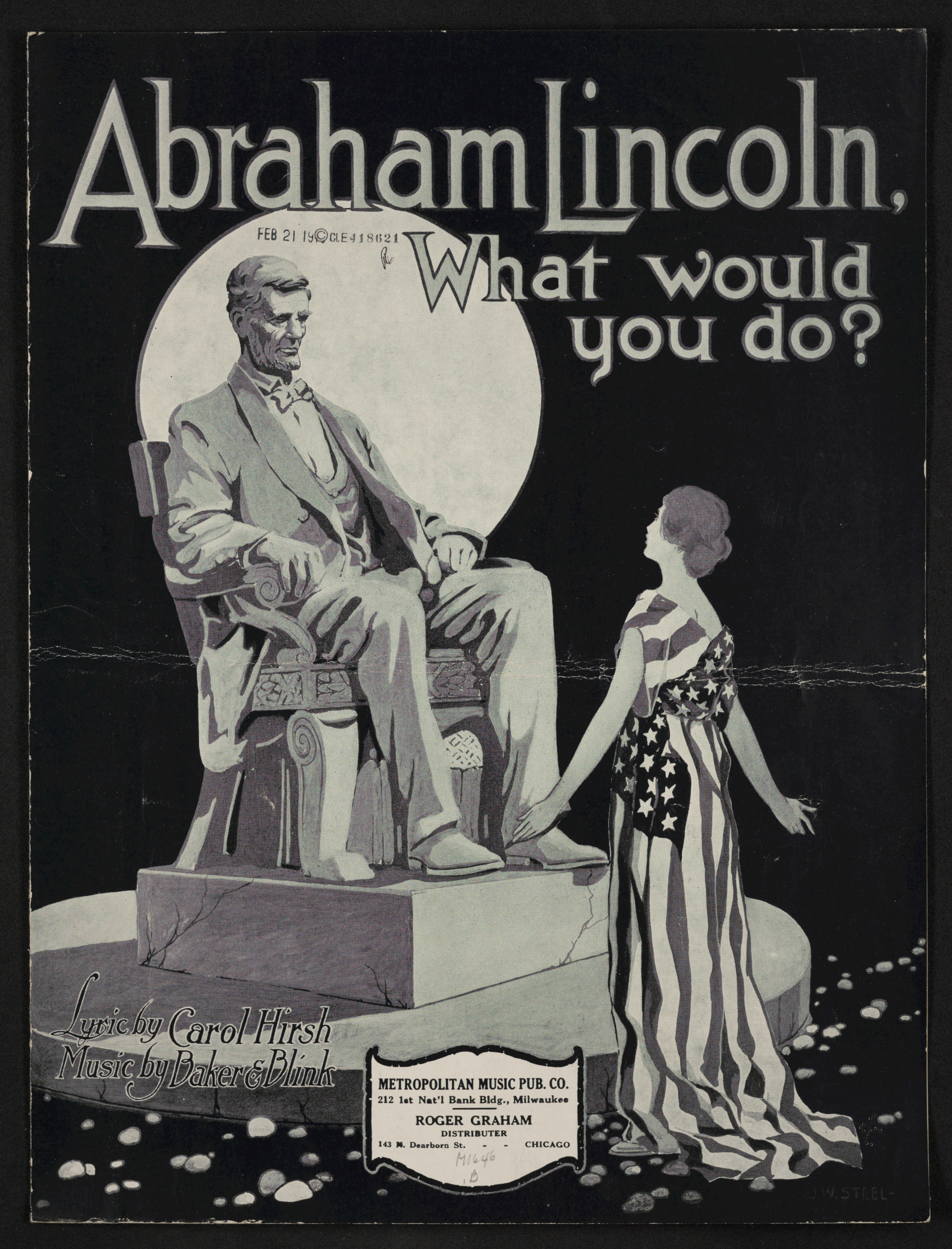 Cover of Carol Hirsch musical composition "Abraham Lincoln, What would you do?" published in 1918 by the Metropolitan Music Pub. Co., Milwaukee.